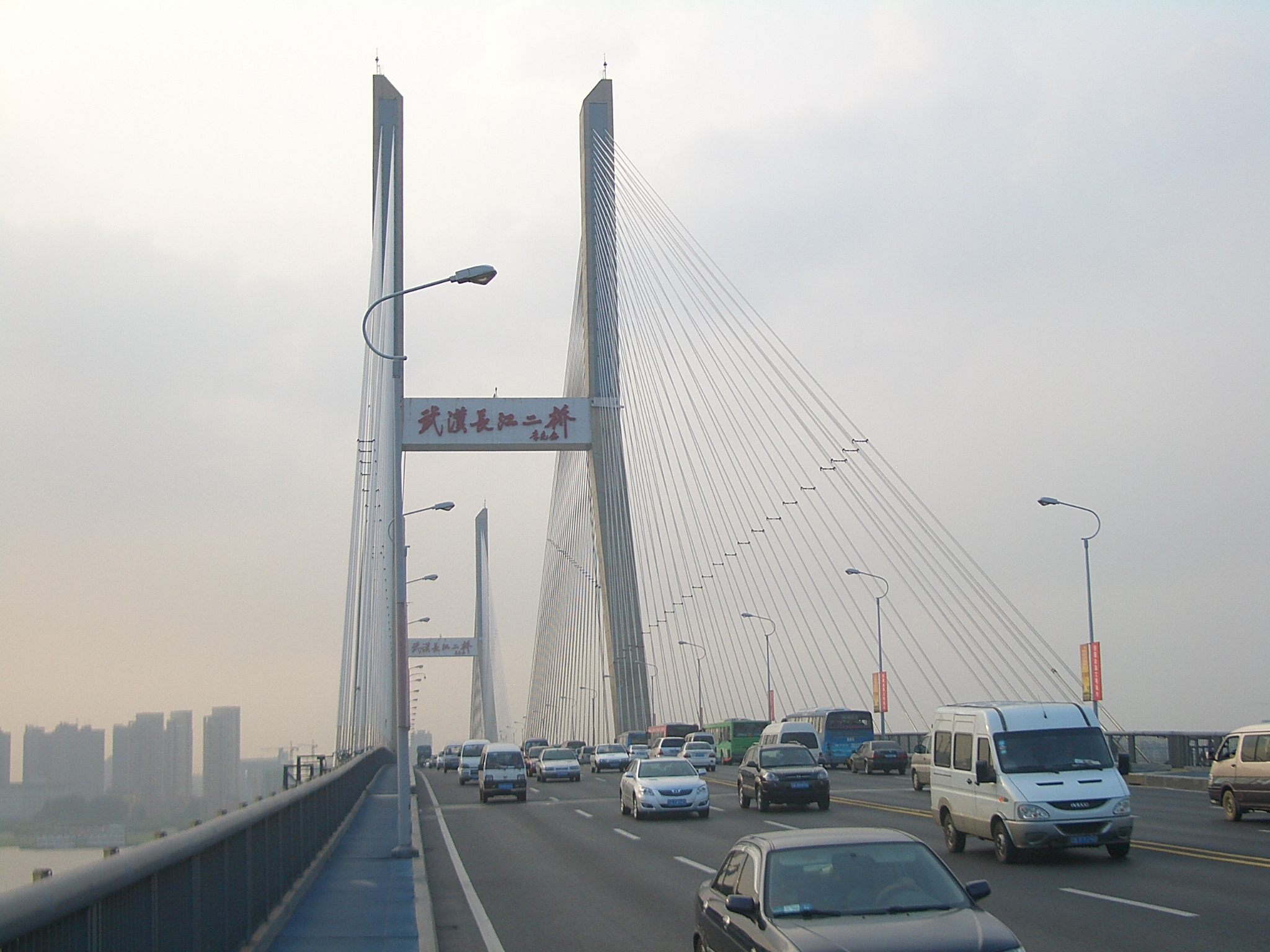 On the Second Changjiang Bridge in Wuhan